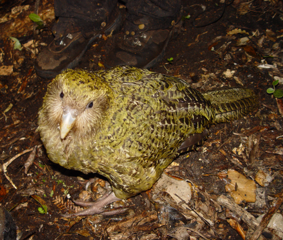 Pura, a 1-year-old Kakapo (Strigops habroptila) on Codfish Island.